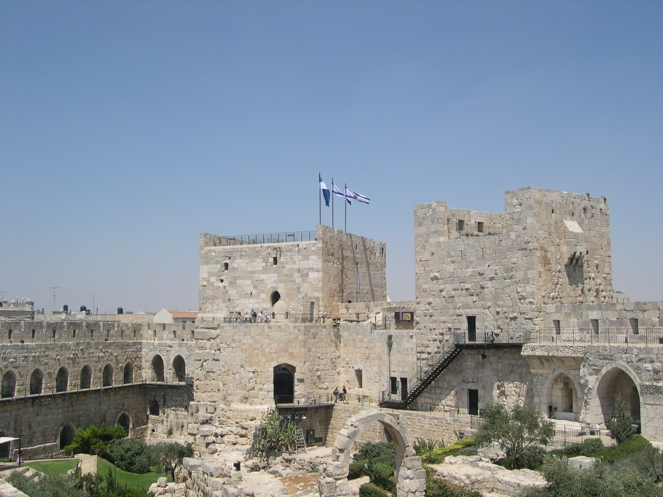 climbing on old buildings make me trigger happy with the camera